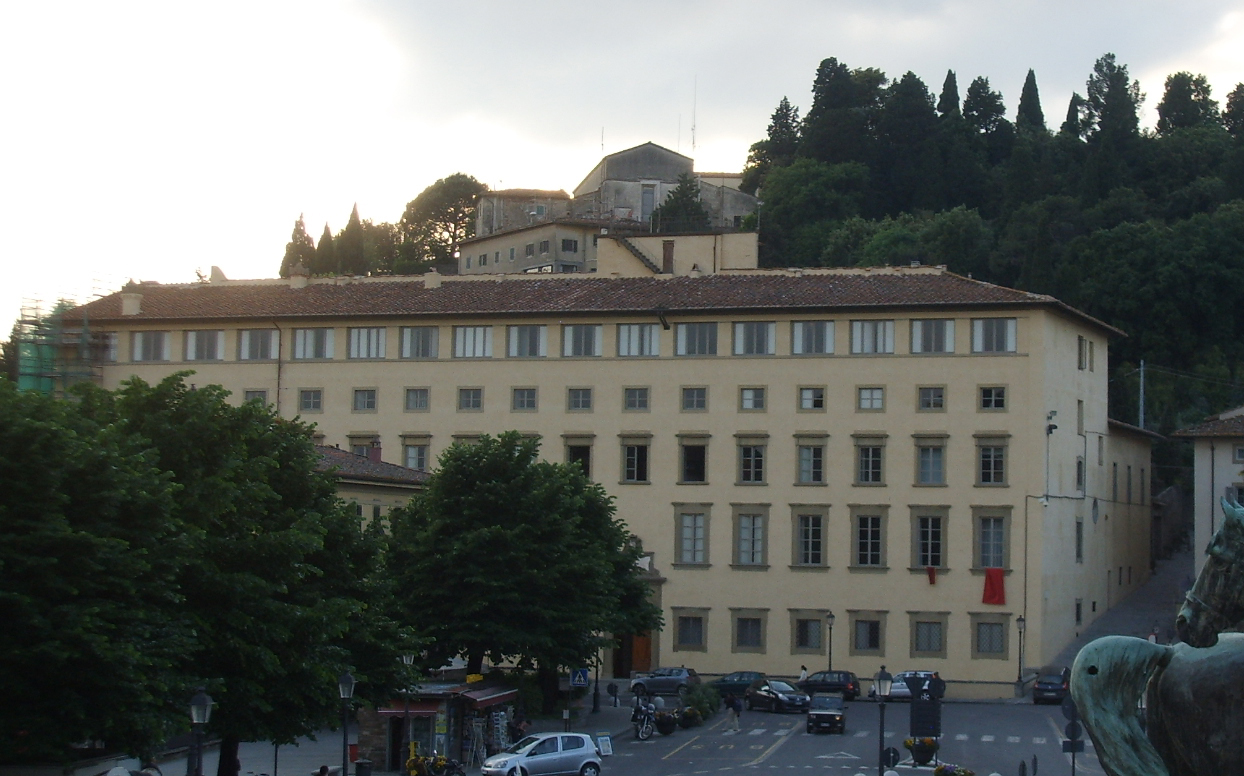 Episcopal Seminary in Piazza Mino, Fiesole